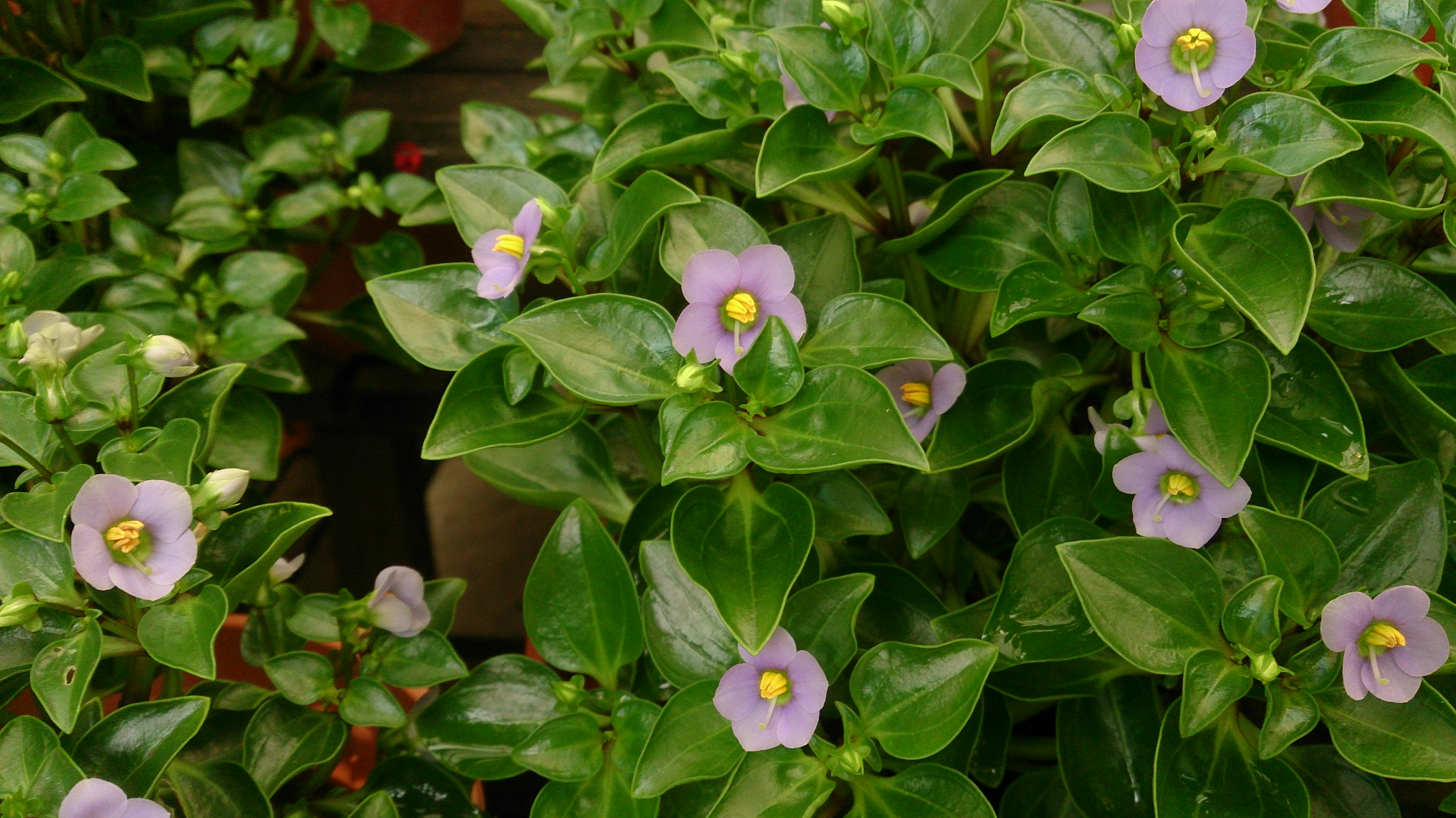 Exacum affine. Common name: Persian violet